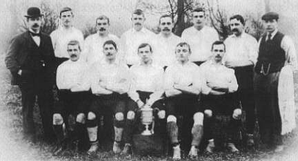 Nottingham Forest F.A. Cup Final team 1898 Back Row L-R – H Hallam (Secretary), Frank Forman, Archie Ritchie, Dan Allsopp, John McPherson, William Wragg, Adam Scott, G Bee (Trainer). Front Row L-R – Tom McInnes, Charlie Richards, Len Benbow, Arthur Capes, Billy Spouncer